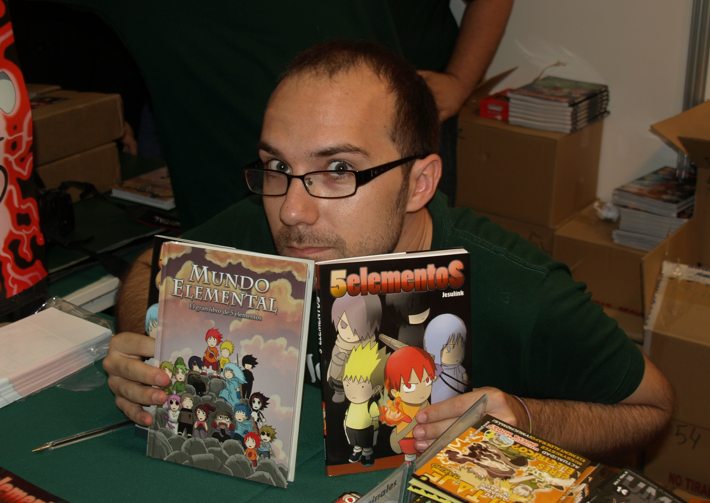 Jesulink (Calp, 1984) is a manga artist and writer from Spain. Posing for Wikipedia at Salón del Manga de Barcelona 2011